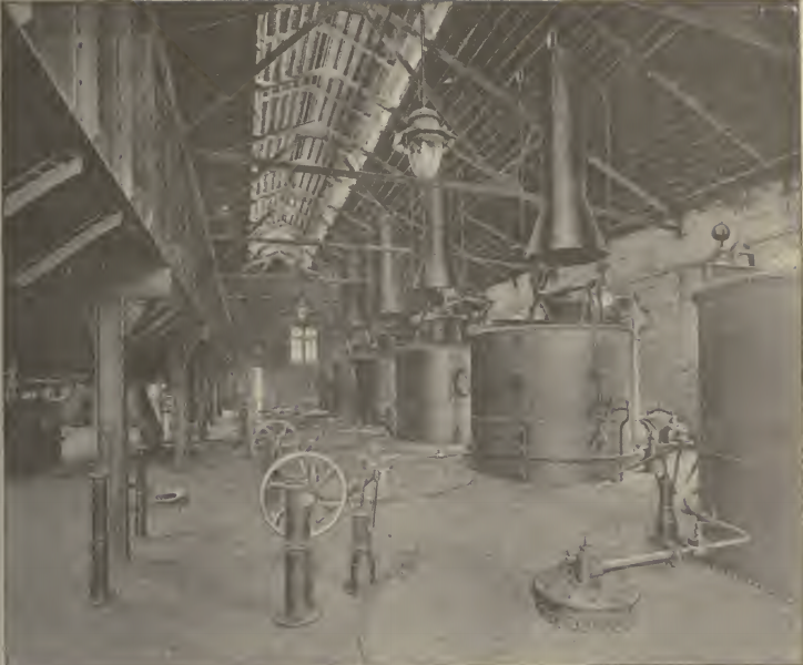 A Carburetted Water Gas Plant, Gas Light & Coke Company